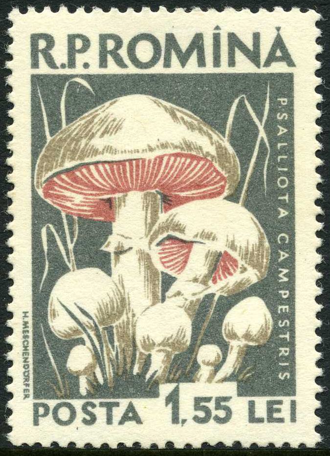 Rumanian stamp, 1958, serie of mushrooms, 1,35 Lei, Psalliota campestris or Agaricus arvensis